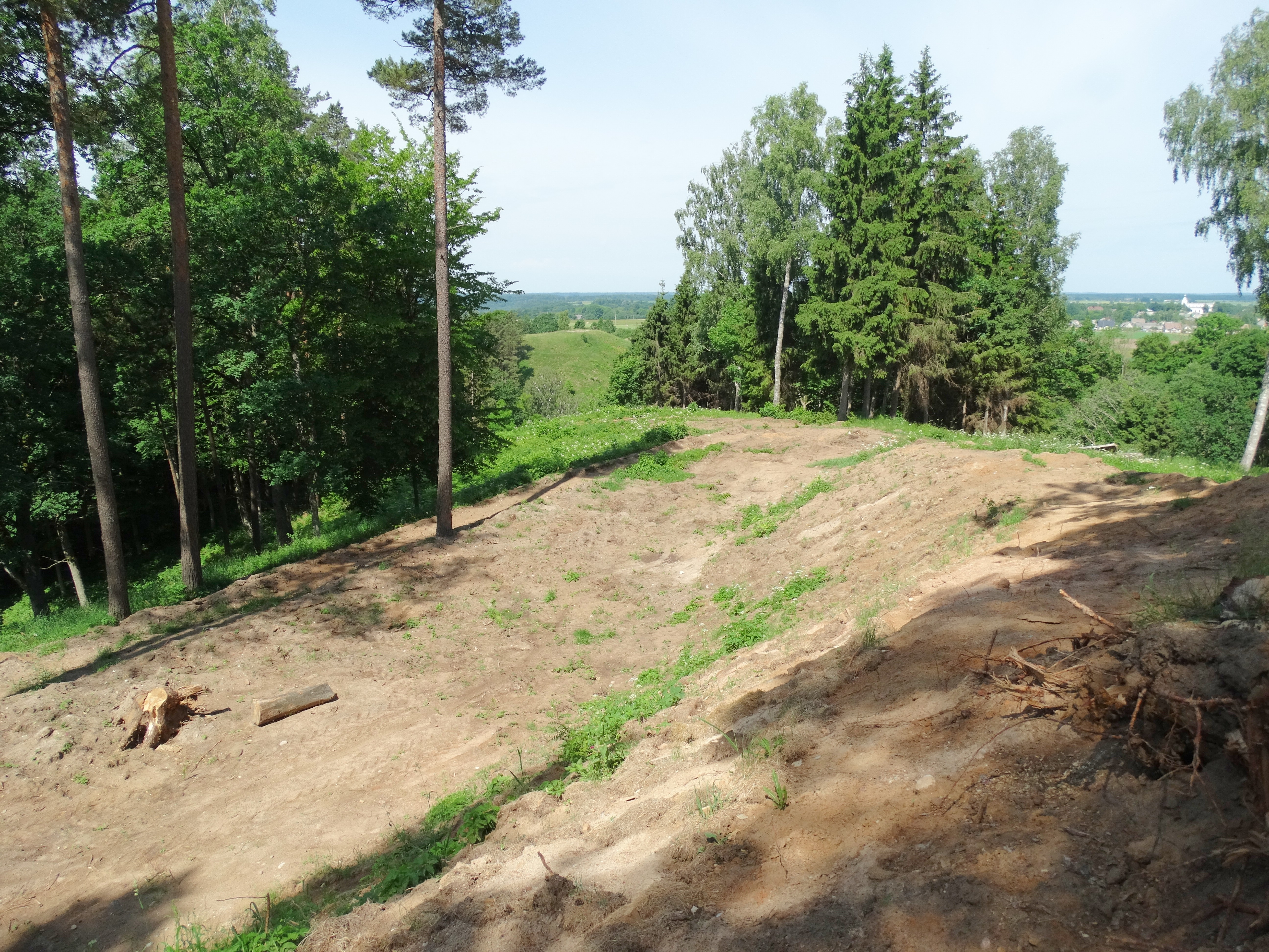 Betygala II hillfort, Raseiniai district, Lithuania